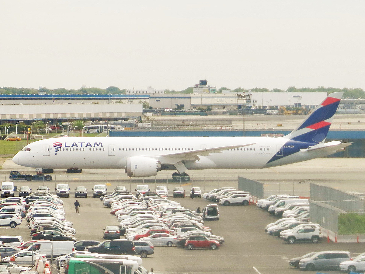 A LATAM (Lan Chile) Boeing 787-9 Dreamliner, having arrived from Chile on its very first revenue flight is being towed from Terminal 8 to Cargo Area B to be parked for the day until its return flight via Peru. This aircraft was the first new plane to receive the livery for the LATAM Airlines Group to unify both the LAN and TAM brands.